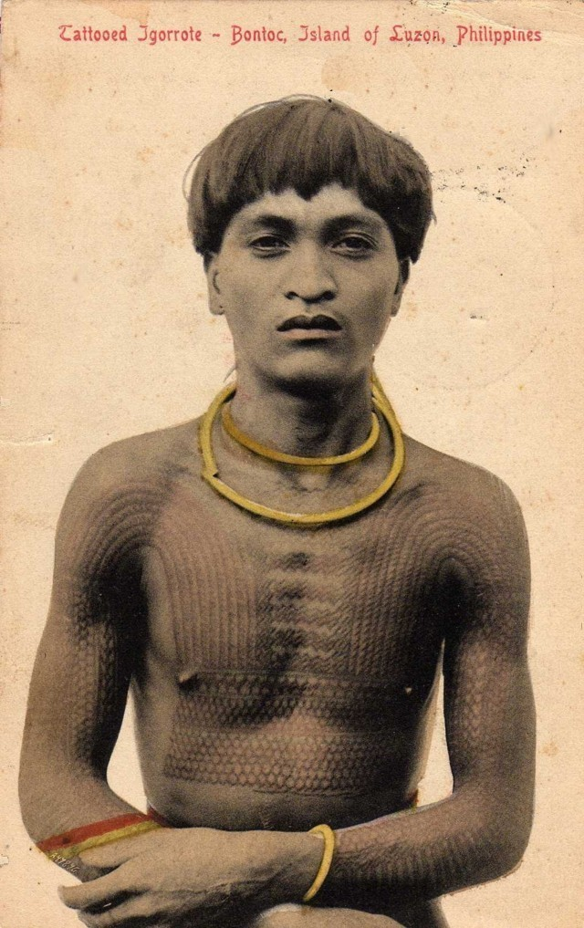 1908 postcard traditional view of young Igorot male.